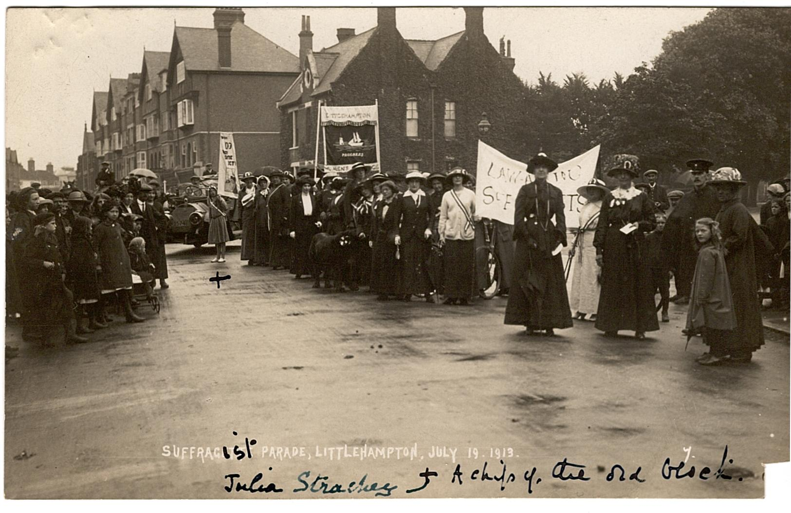 Postcard featuring photographic image of a suffragists parade, Littlehampton, parade moving up street, three banners carried, crowds lining pavements, houses in the background, manuscript inscription front: 'Julia Strachey A chip off the old block'. Reference: TWL.2002.353